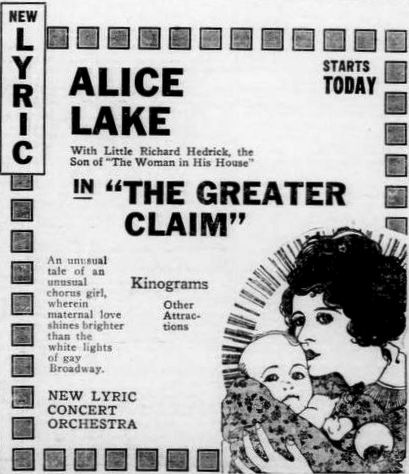 Newspaper advertisement for the American drama film The Greater Claim (1921) with Alice Lake, on page 9 of the March 19, 1921 Duluth Herald.